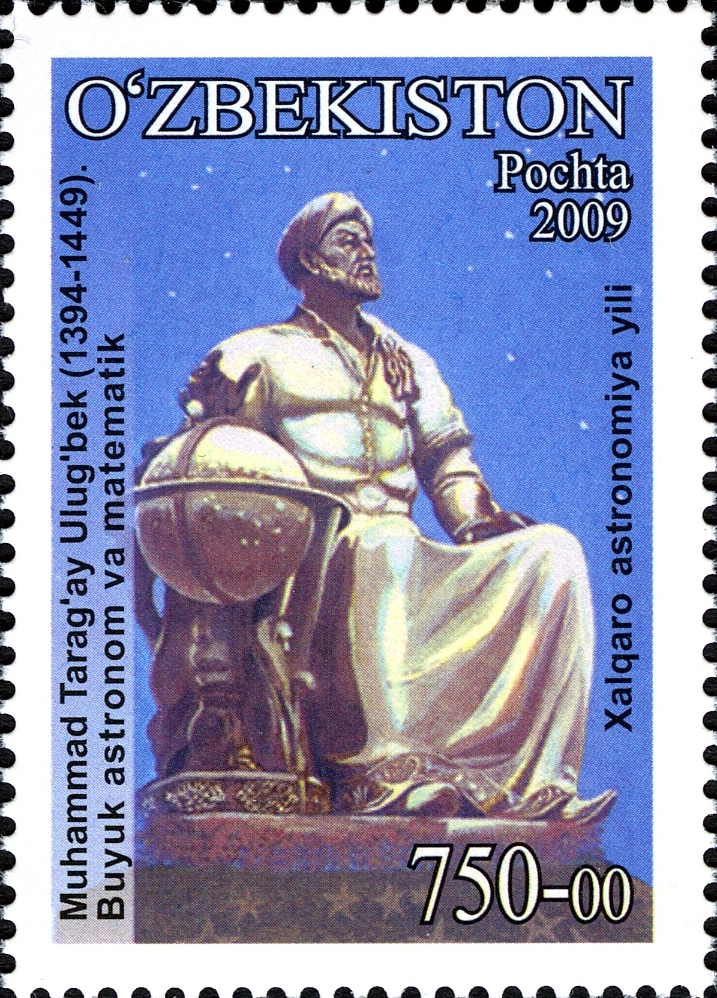 Stamps of Uzbekistan, 2009